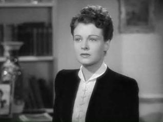 Ruth Hussey in The Philadelphia Story trailer